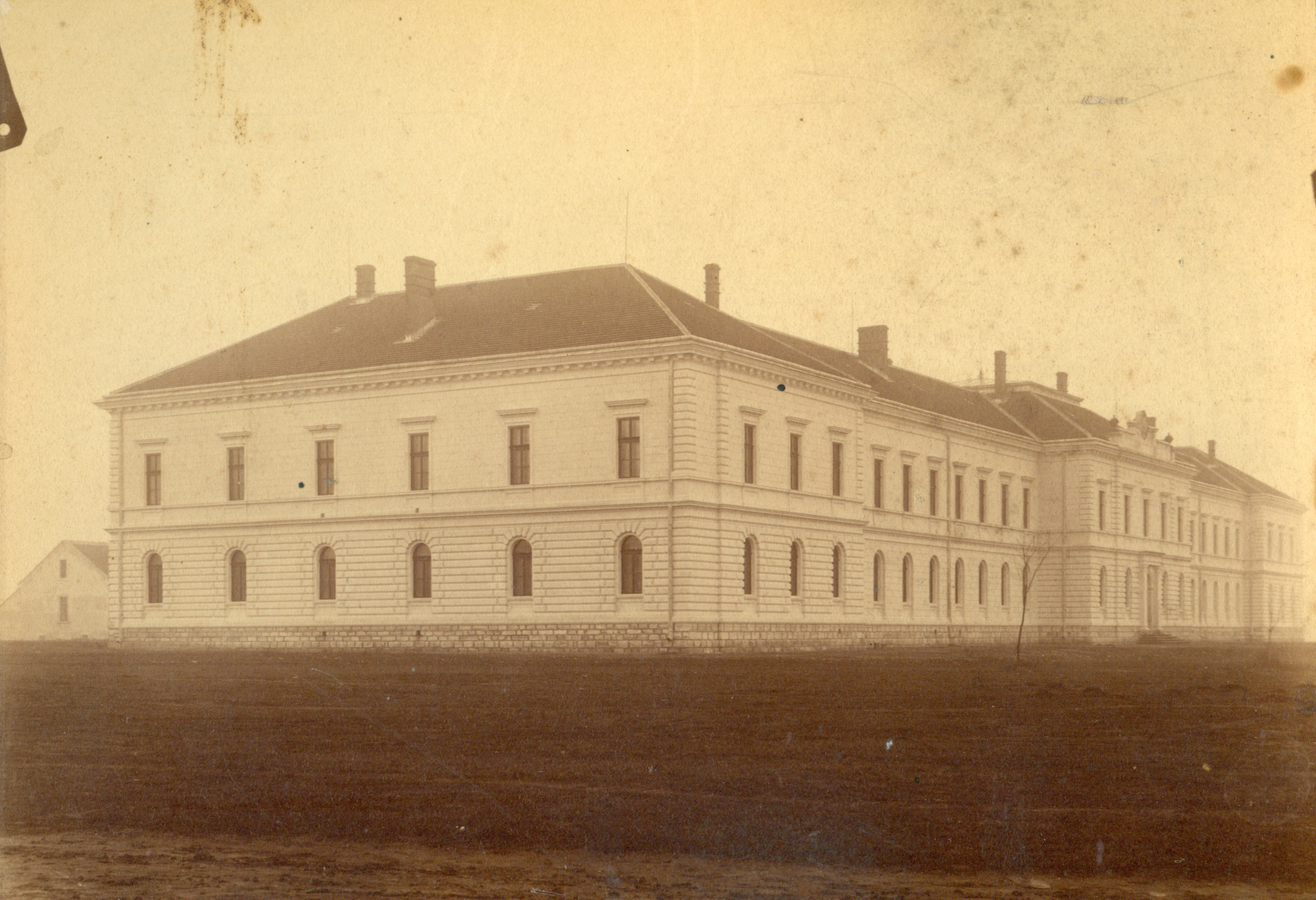 Negotin's barracks "Hajduk Veljko" Srpski (latinica): Negotinska kasarna "Hajduk Veljko"